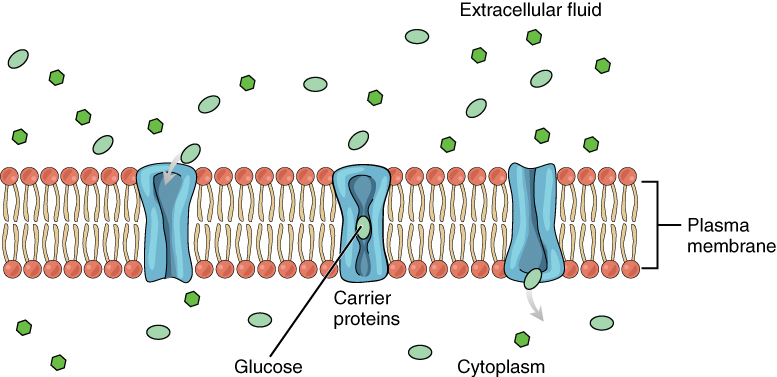 Illustration from Anatomy & Physiology, Connexions Web site. Jun 19, 2013.